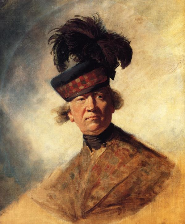 Portrait of Archibald Montgomerie, 11th Earl of Eglinton (1726-1796)